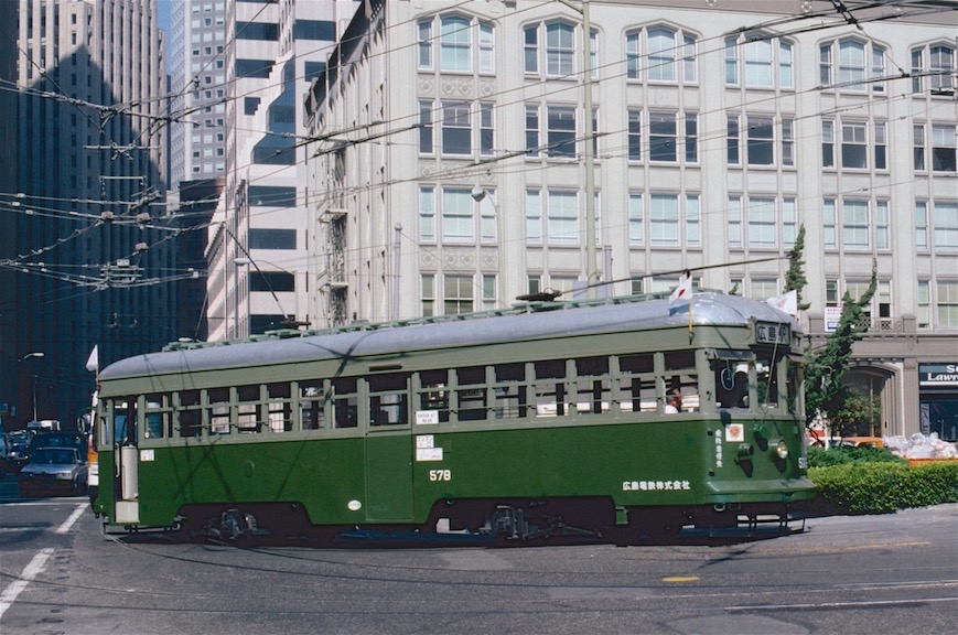 During the 1987 San Francisco Historic Trolley Festival, ex-Kobe (Japan) streetcar 578 turns into the Transbay Terminal loop from First Street, in scheduled service on the F-Market line. Car 578 (often referred to as "578-J" or "578(J)" to distinguish it from another San Francisco streetcar numbered 578) was built in 1927 for the Kobe City Railway (as No. 574, later renumbered 578). After World War II (or not until after the closure of the Kobe streetcar system in 1971, according to one source), it was sold to the Hiroshima system and operated on that system for several more years, keeping its two-tone green Kobe paint scheme. It was brought to San Francisco in 1986, for operation in the annual Trolley Festival service.